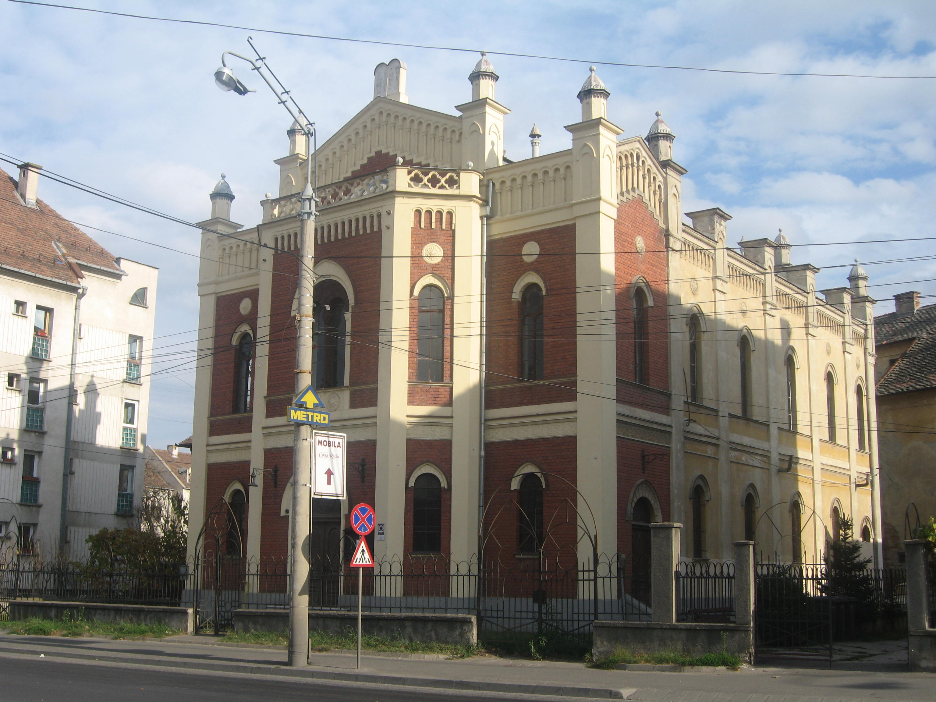 Synagogue of Sibiu